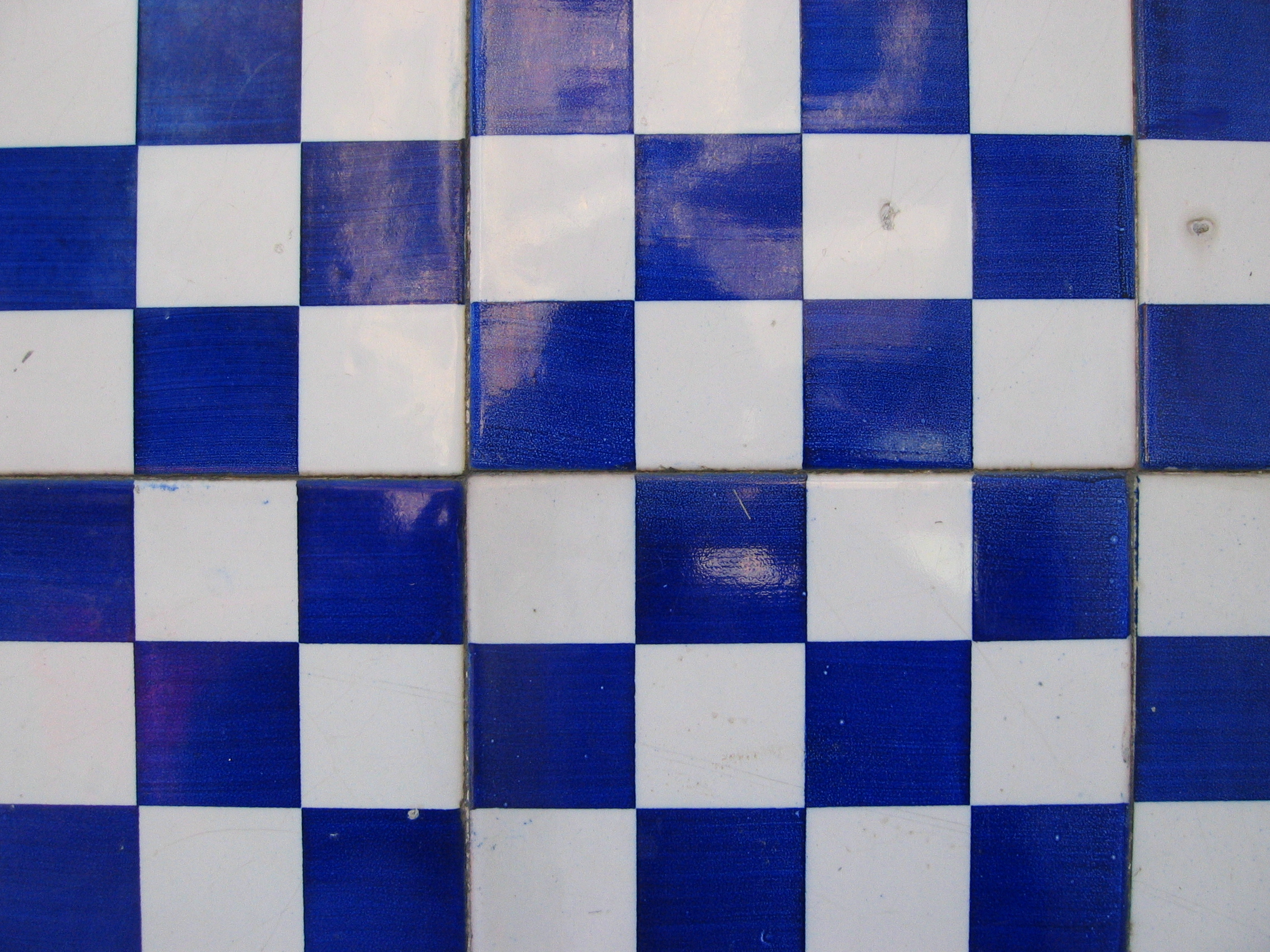 Blue and white tiles, checkered patternuntitled